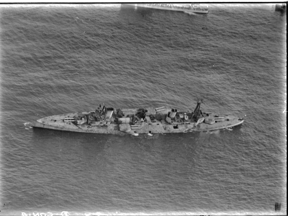 Aerial photograph of the Australian battlecruiser HMAS Australia' sinking after being scuttled off Sydney.